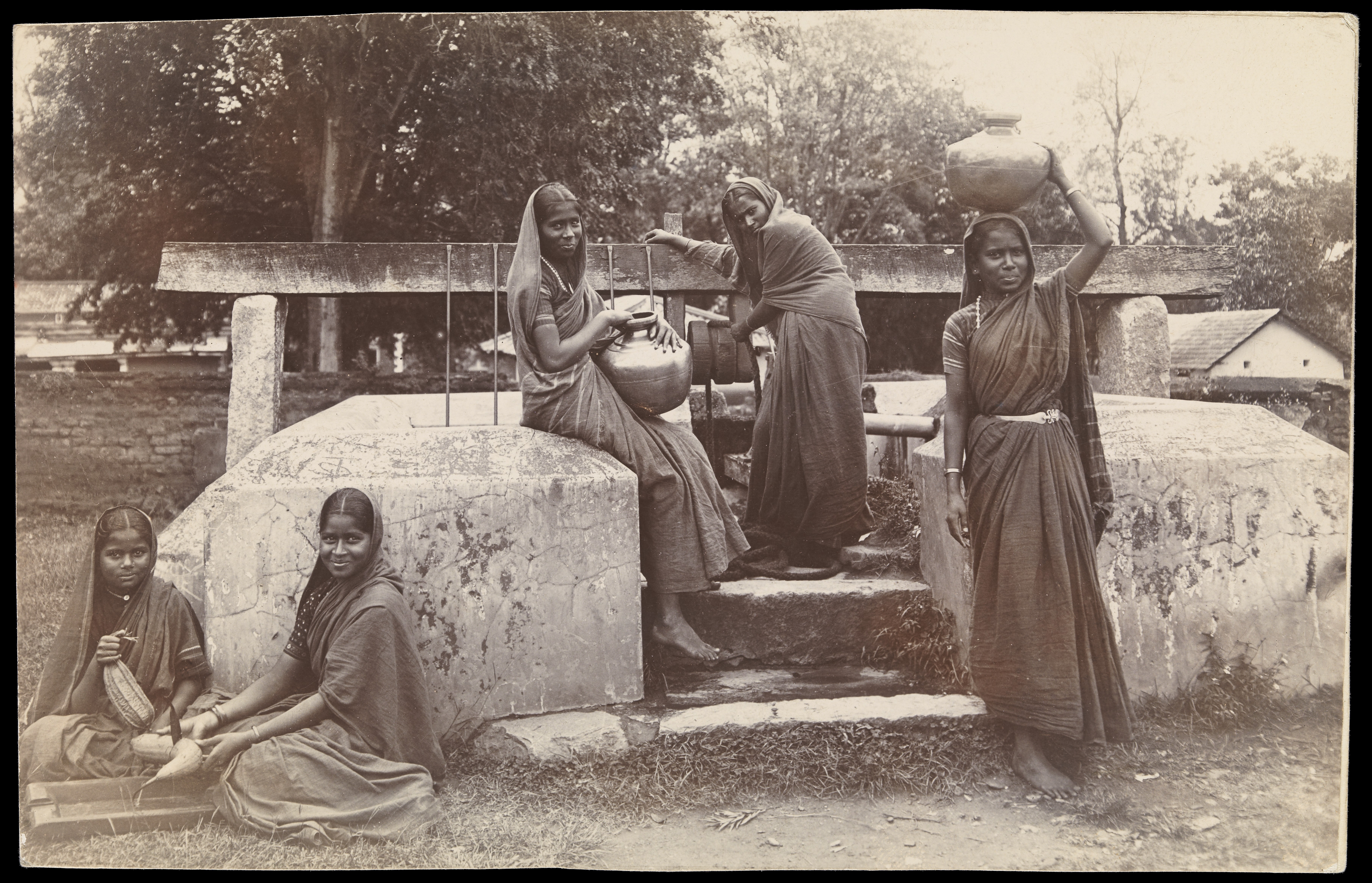 Hassan, Karnataka, India: young women fetching water from a well at an orphanage. (Photograph) Iconographic Collections Keywords: Hassan orphanage.